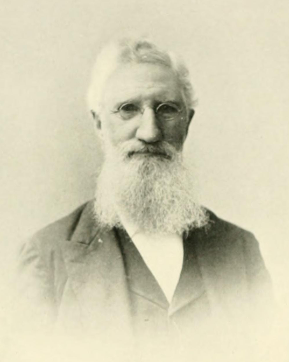 Photograph of James Edward Allen Gibbs (1829-1902), inventor of the Wilcox & Gibbs sewing machine, born in Rockbridge County, Virginia. Photo cropped and extracted from A History of Rockbridge County, Virginia (1920).